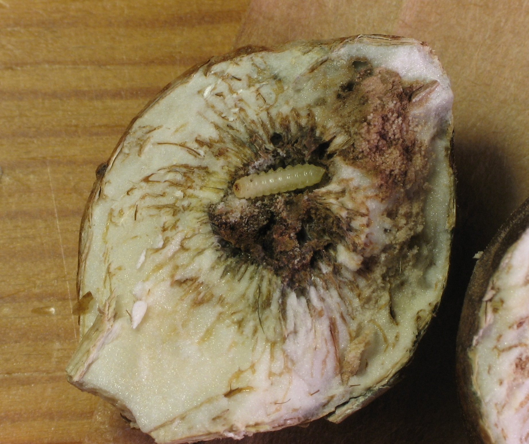 Gall formed by the fly Eurosta solidaginis in the stem of goldenrod, Solidago sp., parasitized by the beetle Mordellistena. Churchville Nature Center, Bucks County, Pennsylvania, USA.